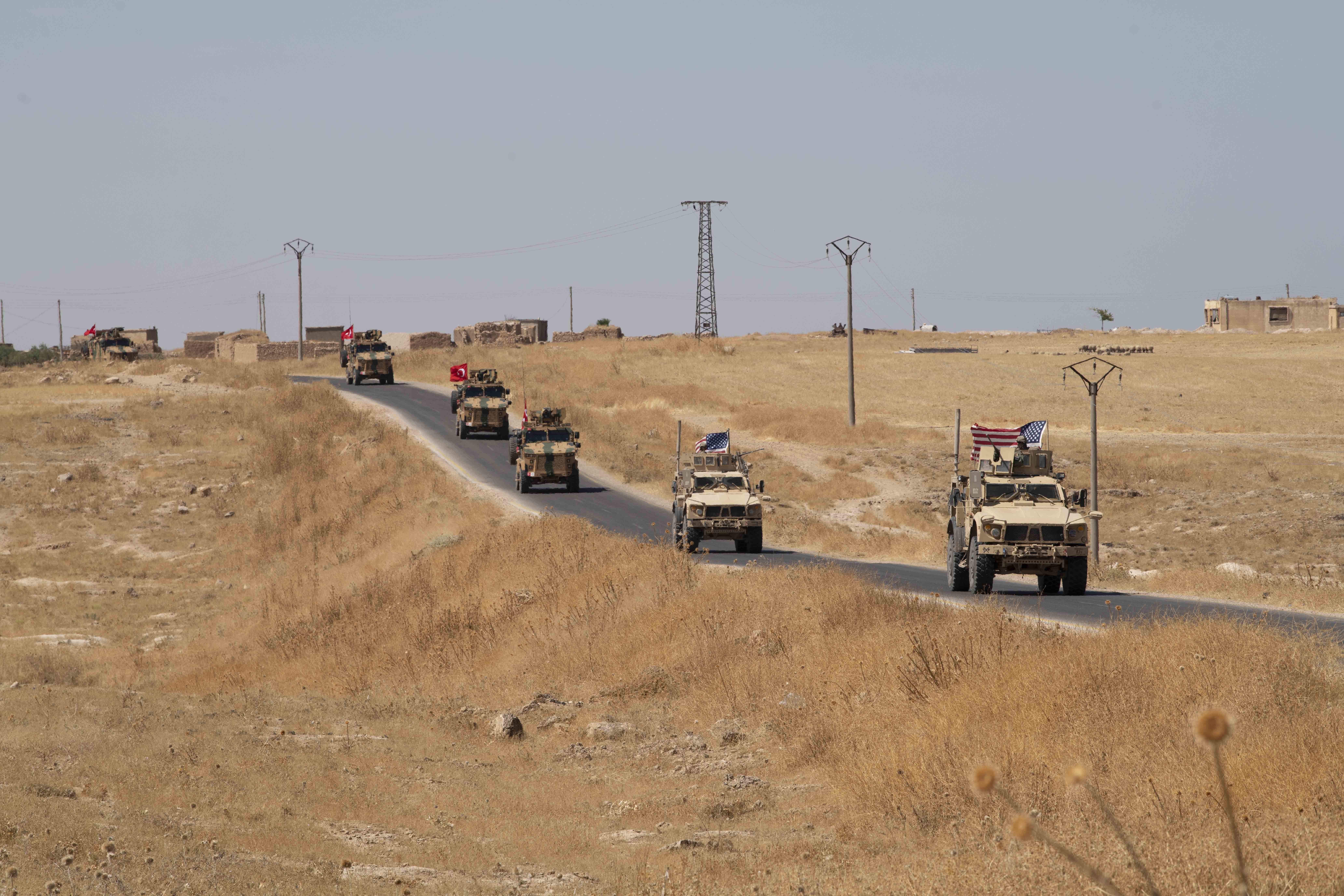 Photo of the first US-Turkish joint ground patrol as part of the Northern Syria Buffer Zone agreement. Two US-flagged armored vehicles lead the way as several Turkish vehicles follow. Photo taken near Tell Abyad, south of the Turkish town of Akçakale